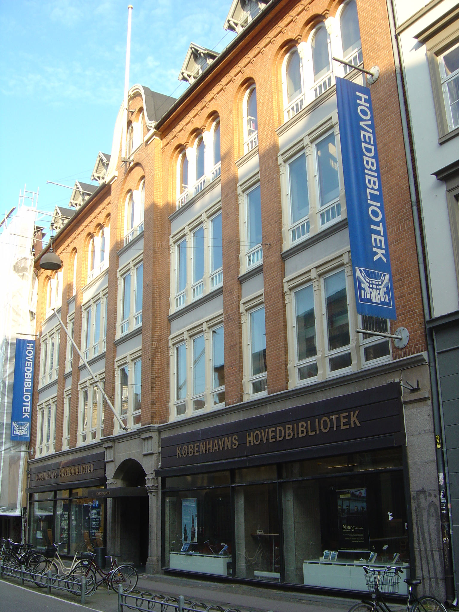 Københavns Hovedbibliotek - The main library located on Krystalgade, that is part of Københavns Kommunes Biblioteker in Copenhagen. Seen from the northwest side on Krystalgade.